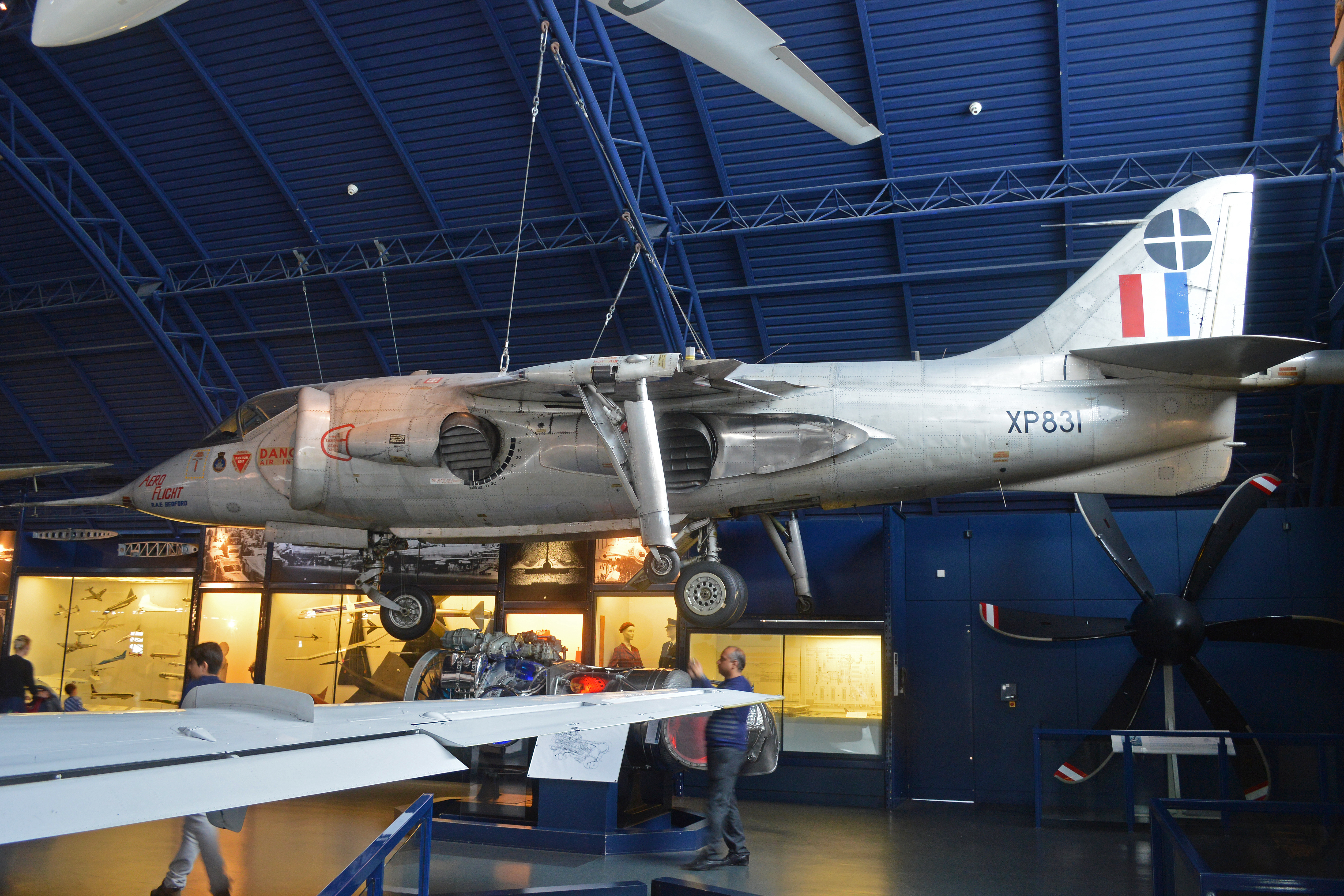 Built 1960. This is the first prototype P1127 and the first to achieve a vertical take-off, on 21st October 1960. The P 1127 developed into the Kestrel and then the Harrier, the world's first operational vertical take-off and landing (VTOL) jet fighter. The second generation of Harrier remains in service with various international air arms, including the US Marines. Initially on display at the RAF Museum at Hendon, XP831 is now on display in the ‘Flight’ Hall of the Science Museum, South Kensington, London. 16-6-2015